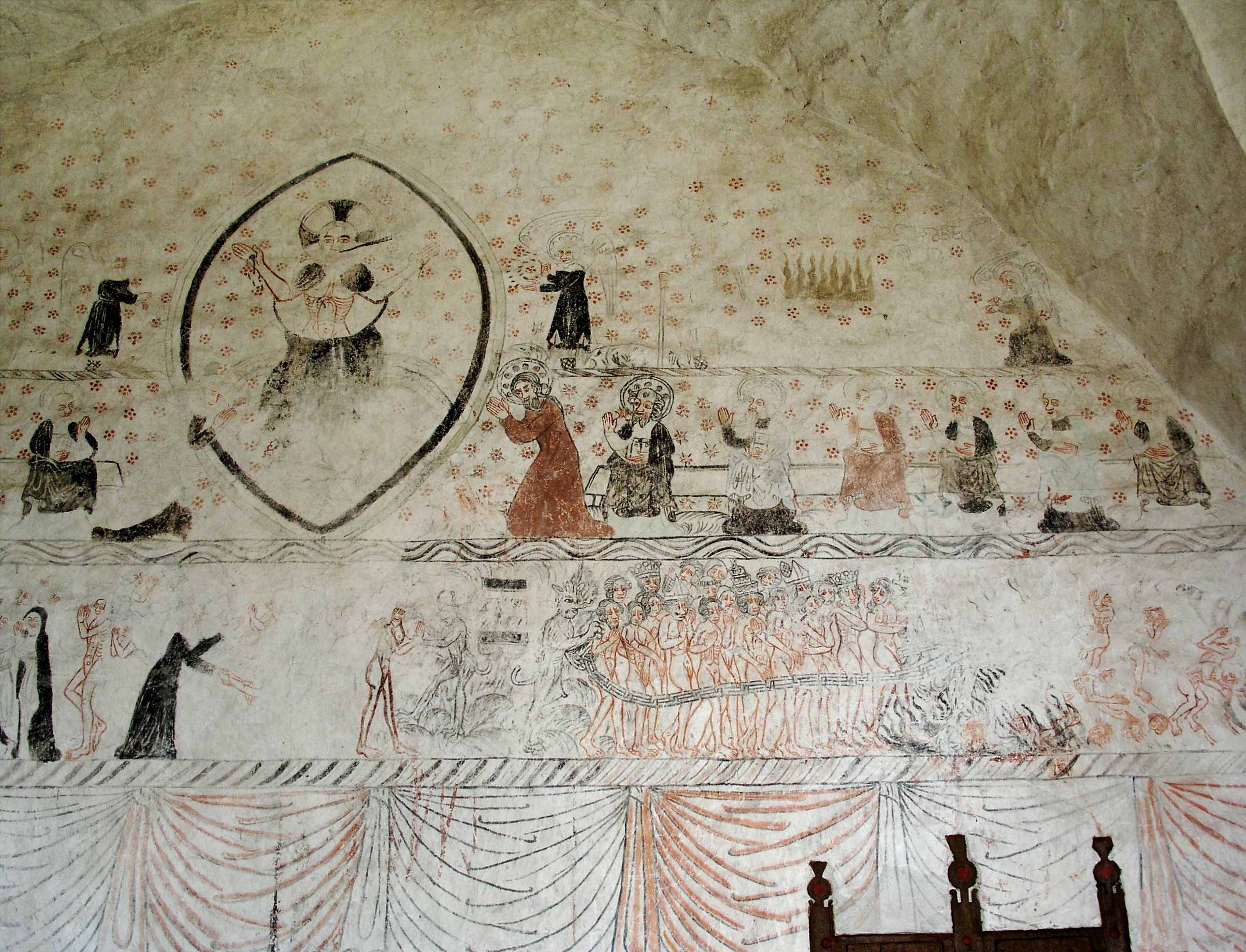 Fresco painting of the Last Judgment, Lummelunda church, diocese of Visby, Gotland, Sweden.